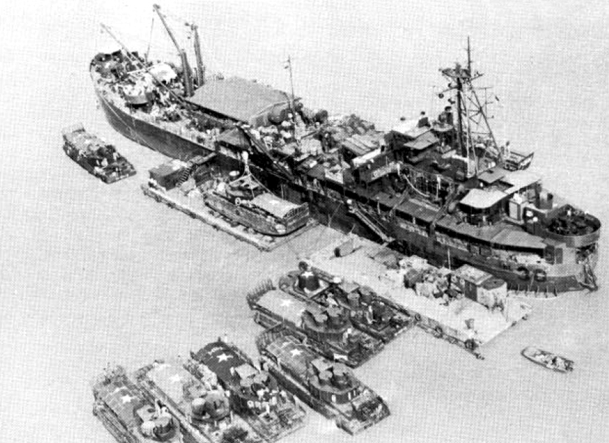 The U.S. Navy landing craft repair ship USS Askari (ARL-30) with armoured tTroop carriers and a monitor in Vietnam, circa 1968.